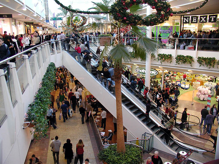 An out-of-town shopping centre: The Mall, Patchway, Bristol, England.